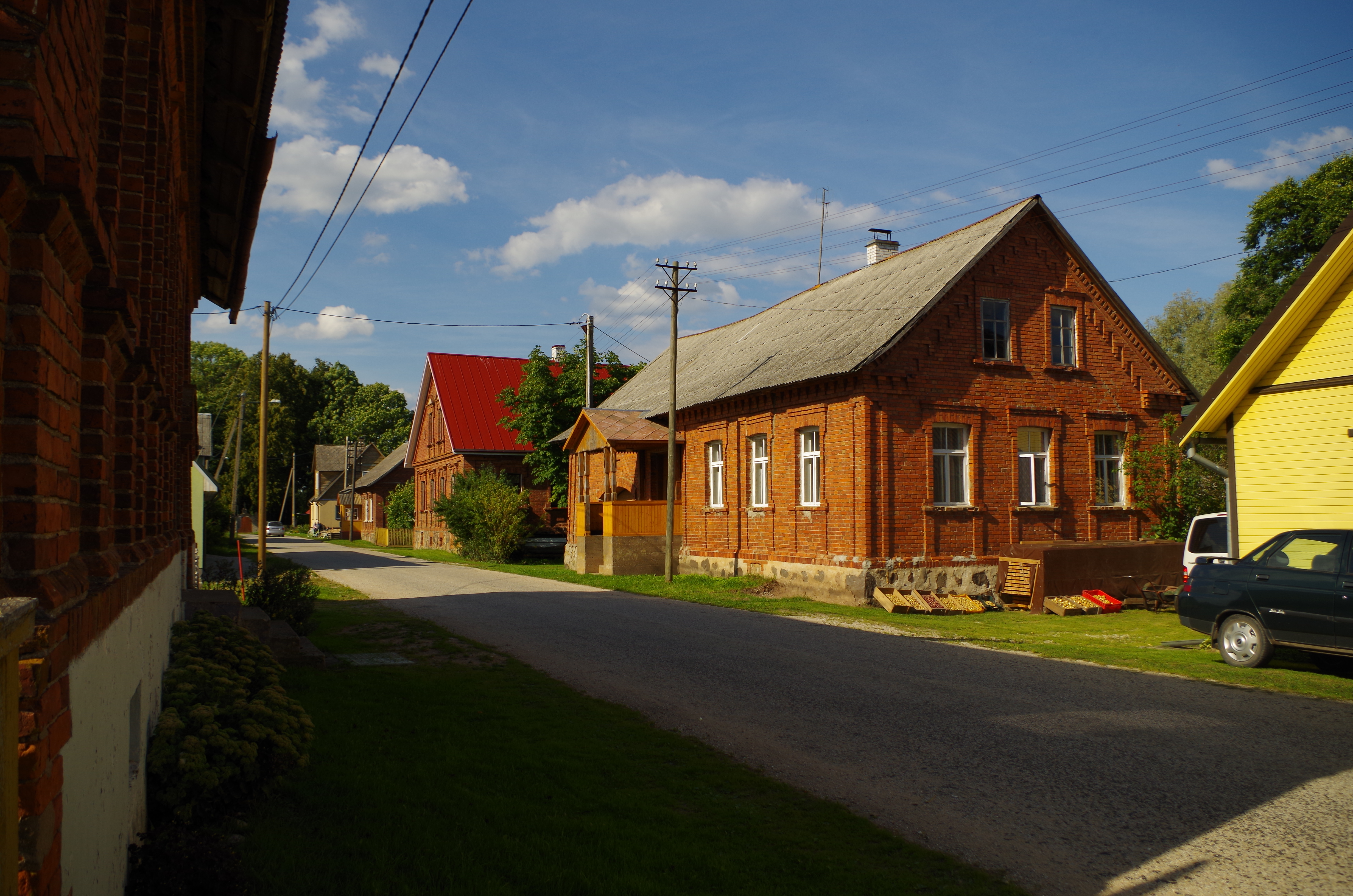 Typical architecture of local village, mostly orthodox Varnja nearby lake Peipus.